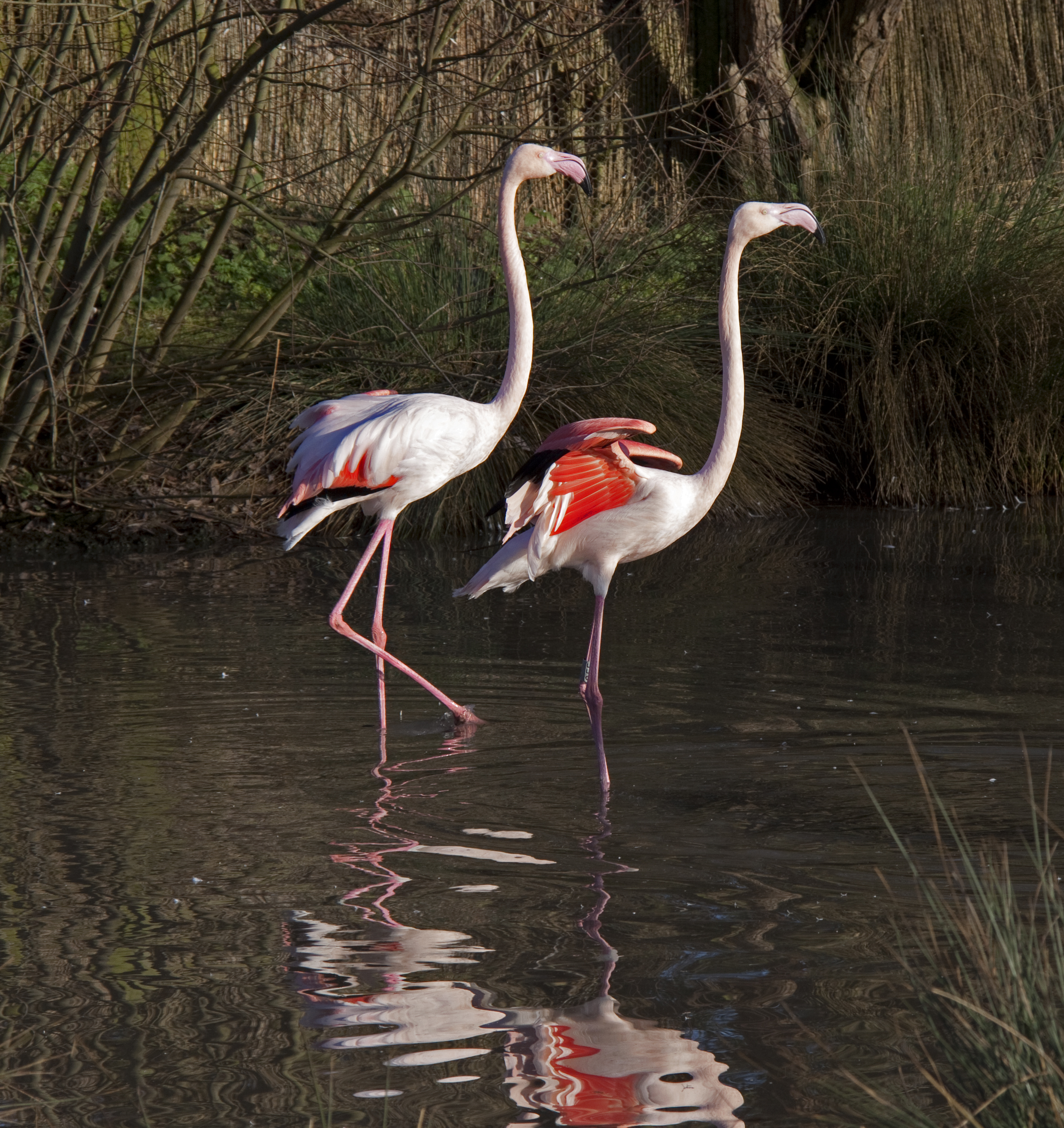 Greater Flamingos